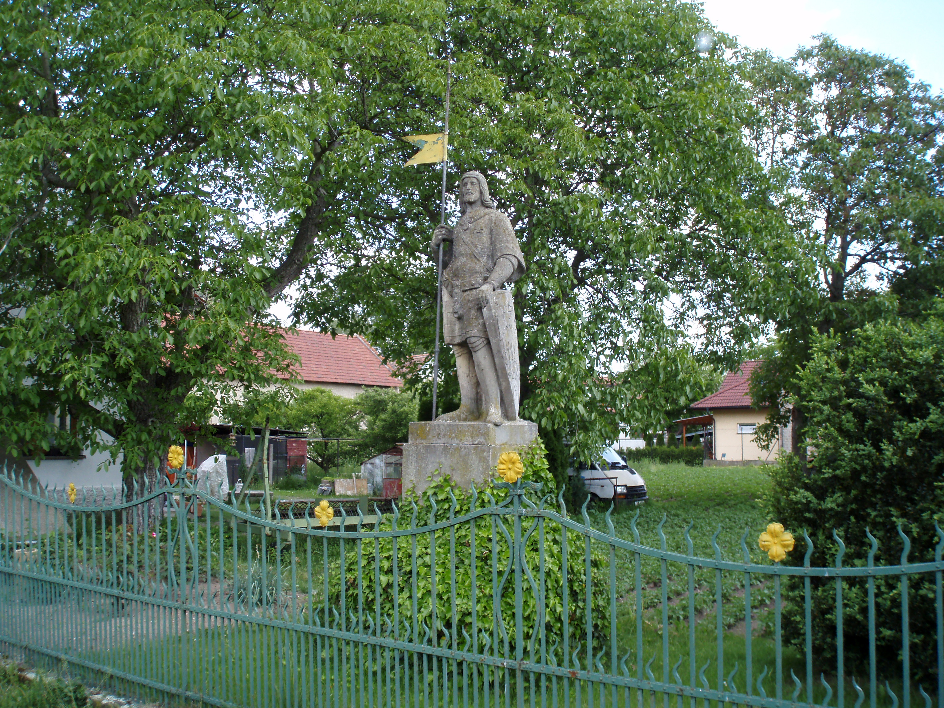 Statue of Saint Wenceslas in Březhrad (Hradec Králové, Czechia)